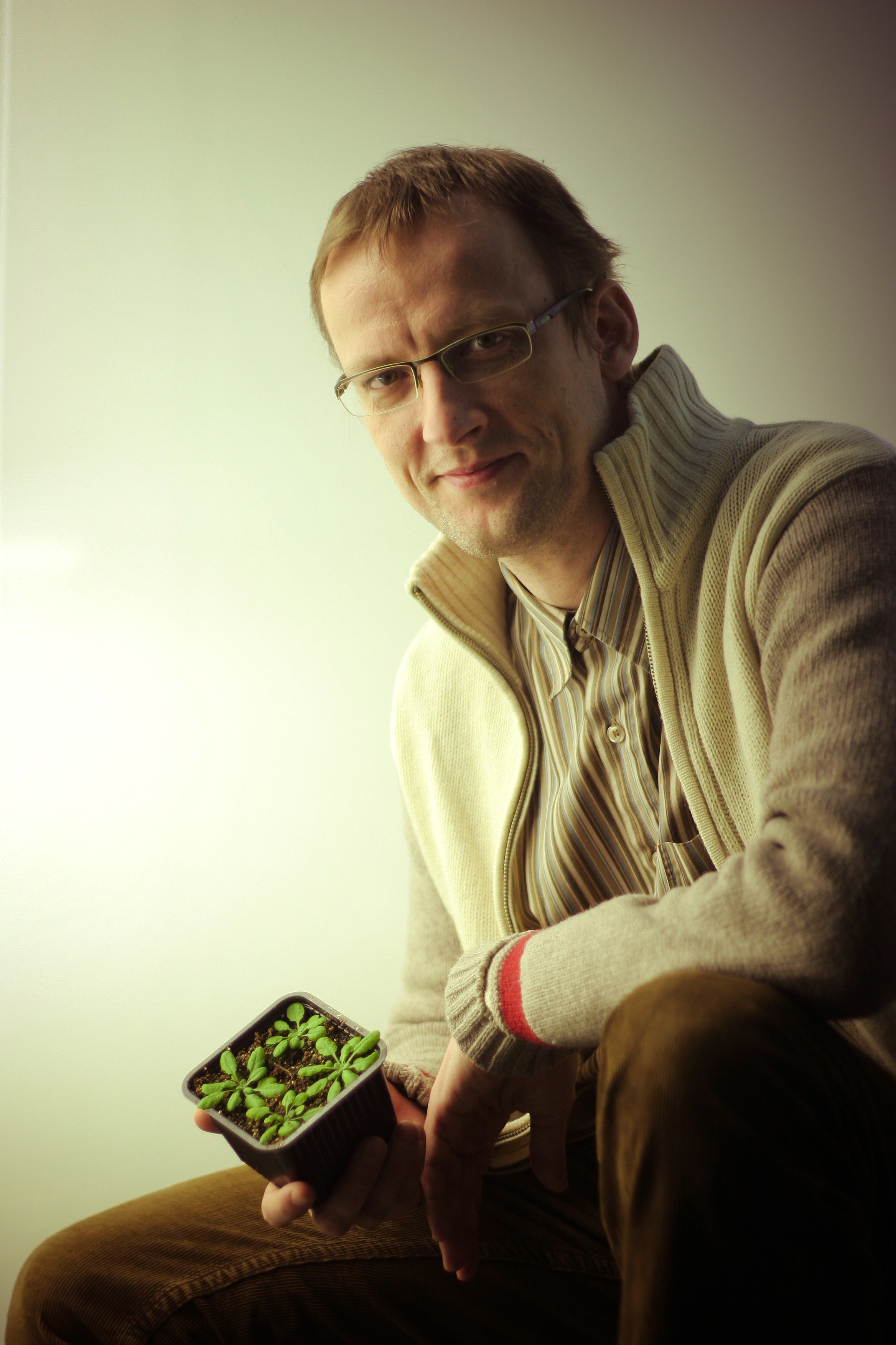 Estonian scientist Hannes Kollist, who studies A. thaliana. Head of Plant Signal Research Group in Tartu University.